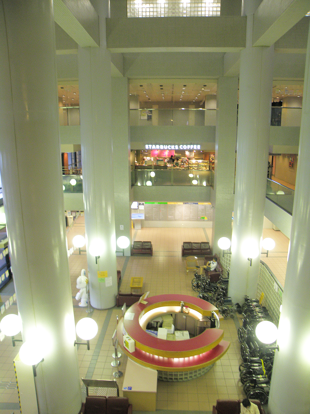 Pamela Youde Nethersole Eastern Hospital in Chai Wan, Hong Kong.